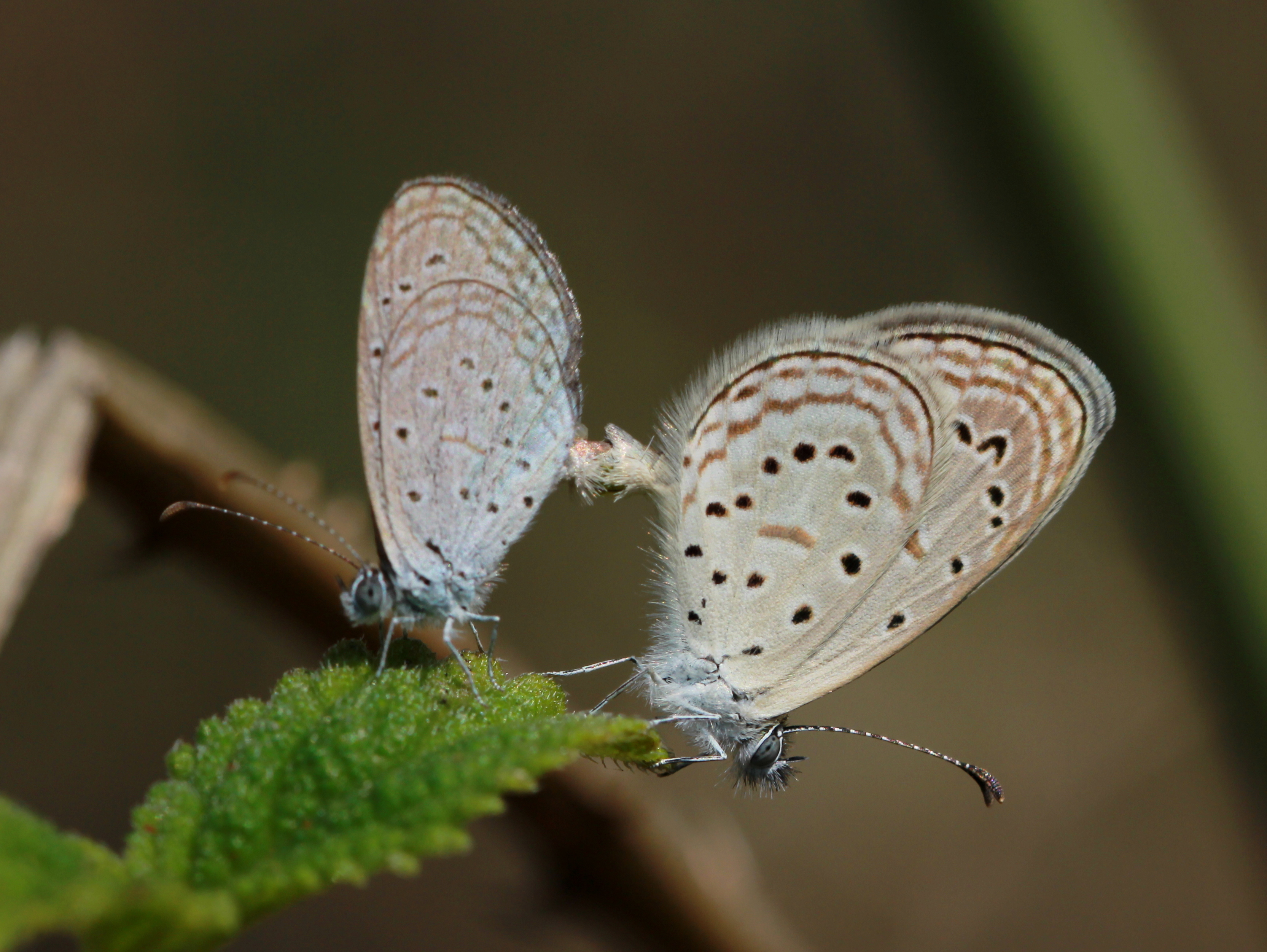 Zizula hylax in Savandurga